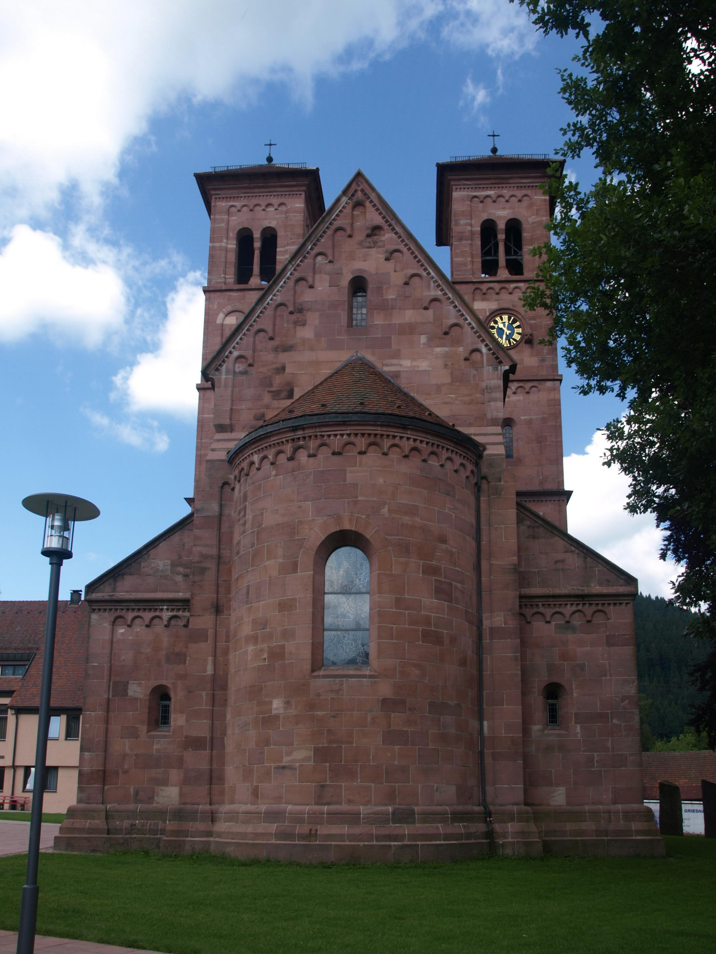 eastern choir of the minster, with a steeple in each side, in Klosterreichenbach